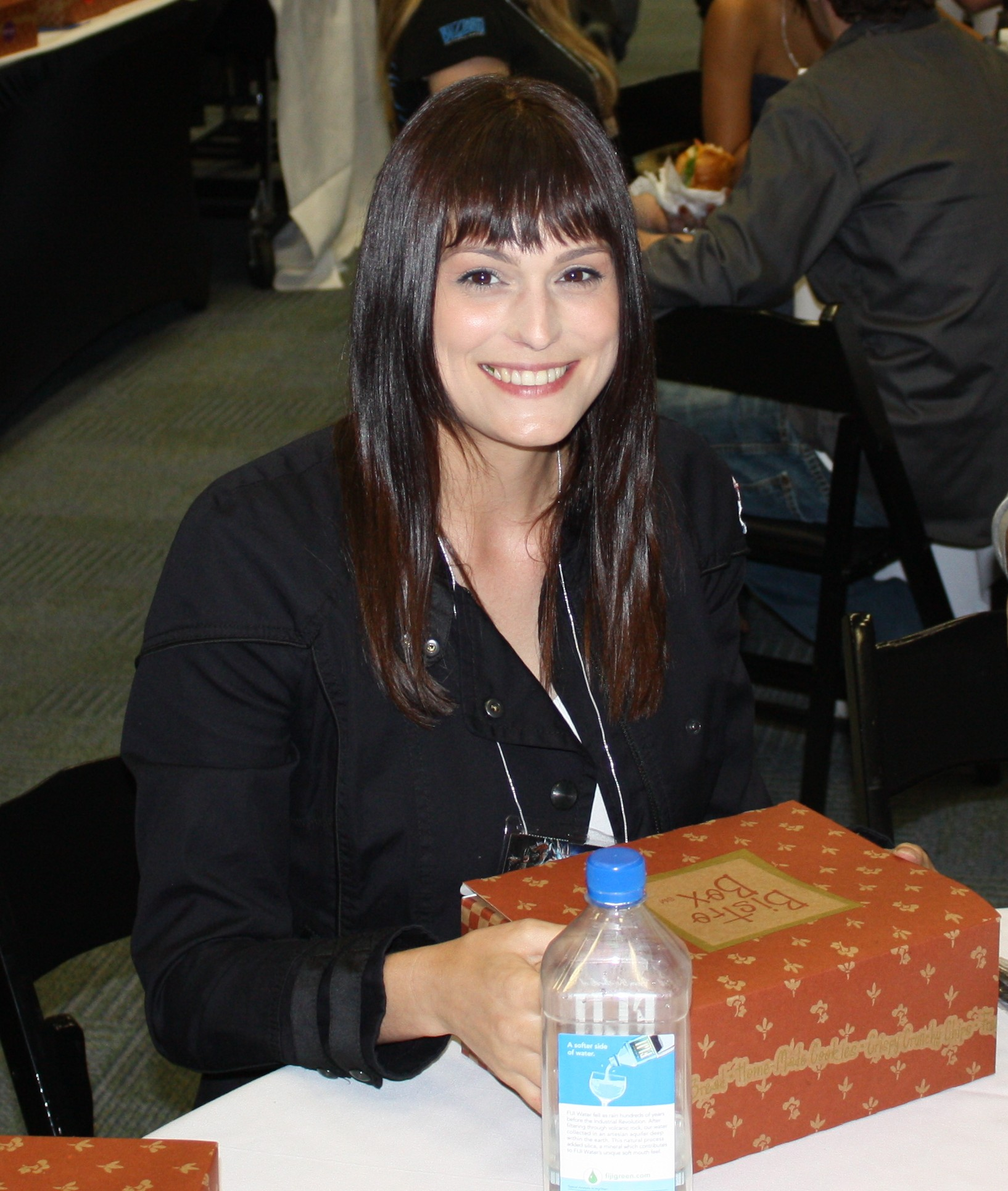 Morgan Webb at Blizzcon 2009.